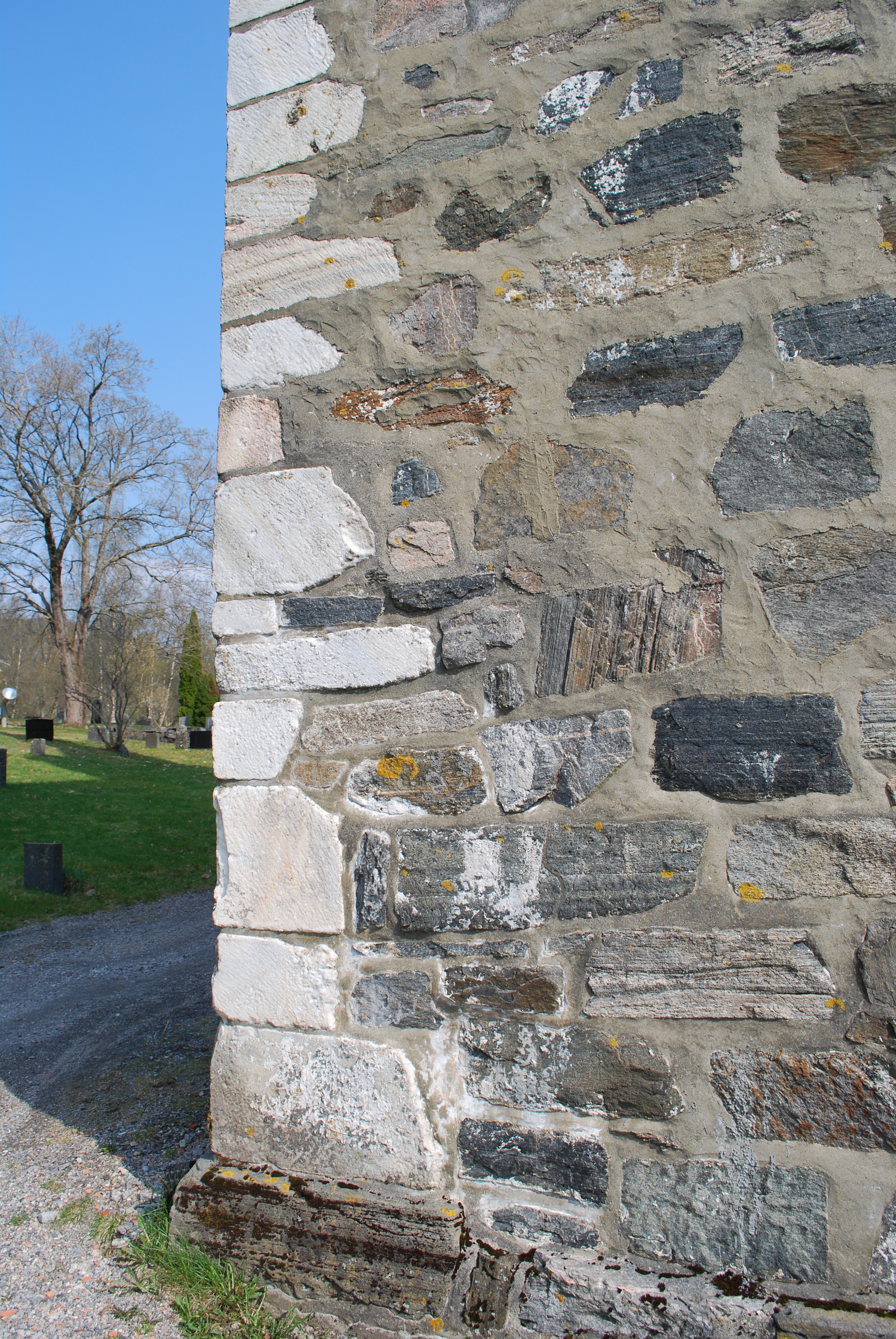 Tingvoll kirke in Tingvoll, Møre og Romsdal, Norway.